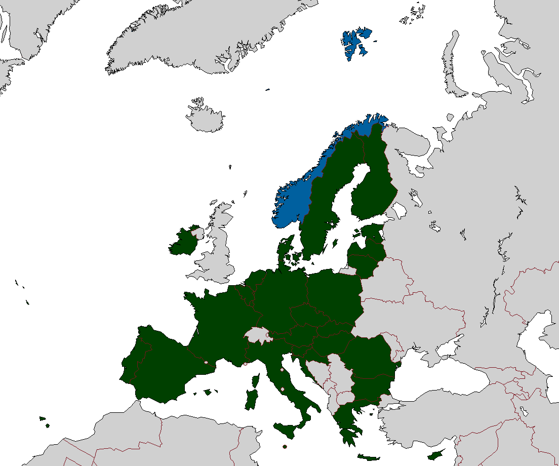 Map of the European Union and Norway.